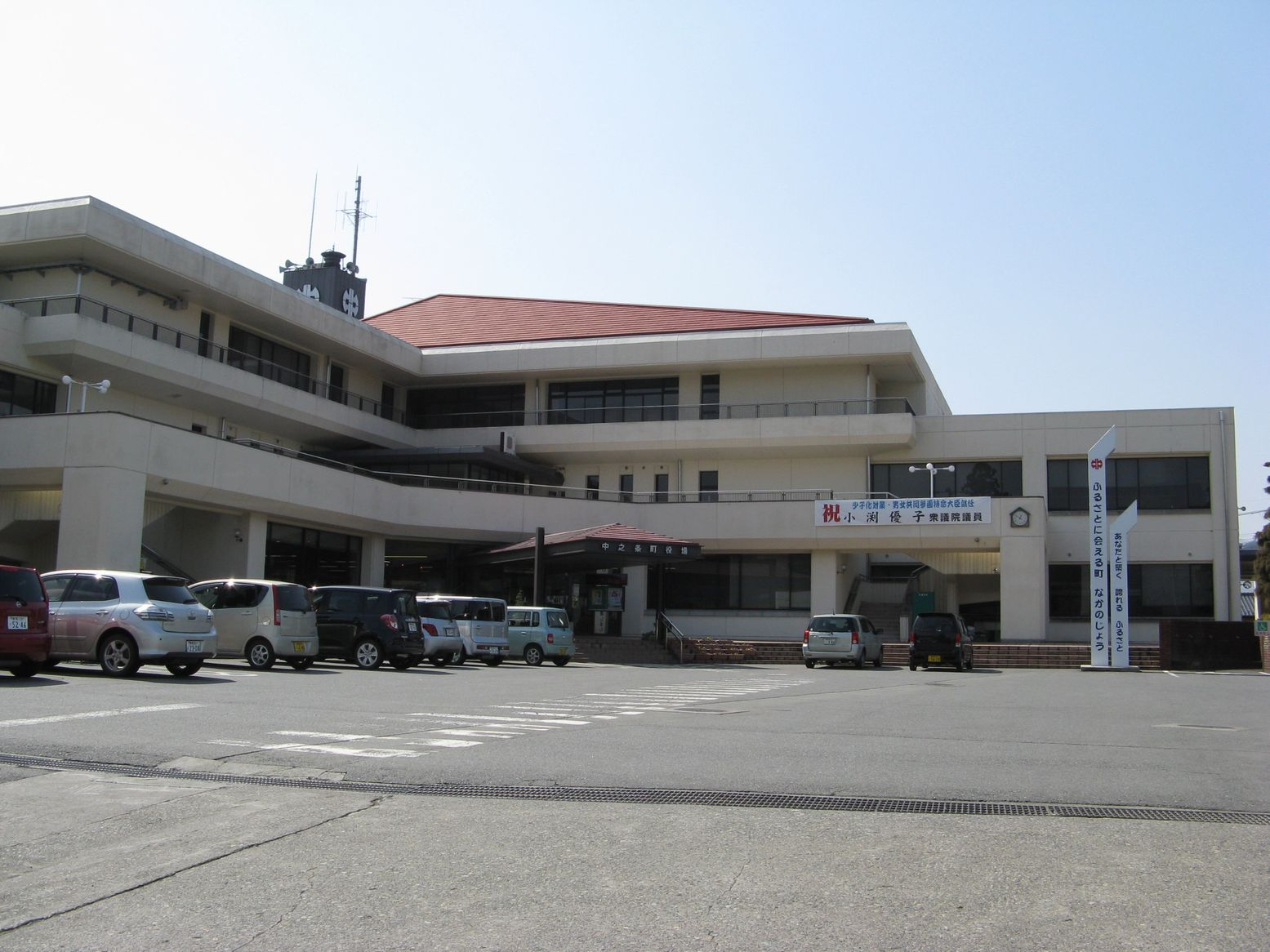 Nakanojō town hall, Nakanojō, Gunma Japan in March 2009